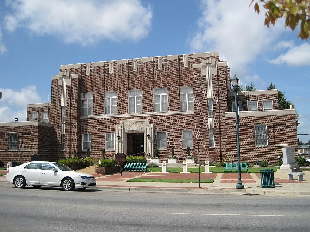 Craighead County court house in Jonesboro, Arkansas